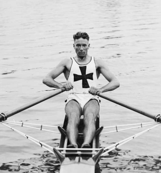 Sculler H. Turner training in his boat, New South Wales, 1935